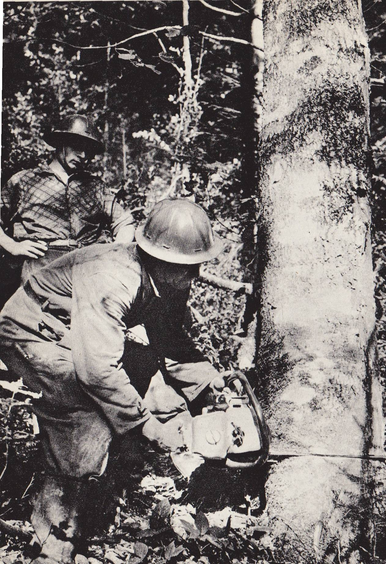 Felling trees in Bieszczady